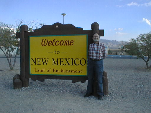 Frank Harary at New Mexico border after his 80th birthday seminar in Chicago